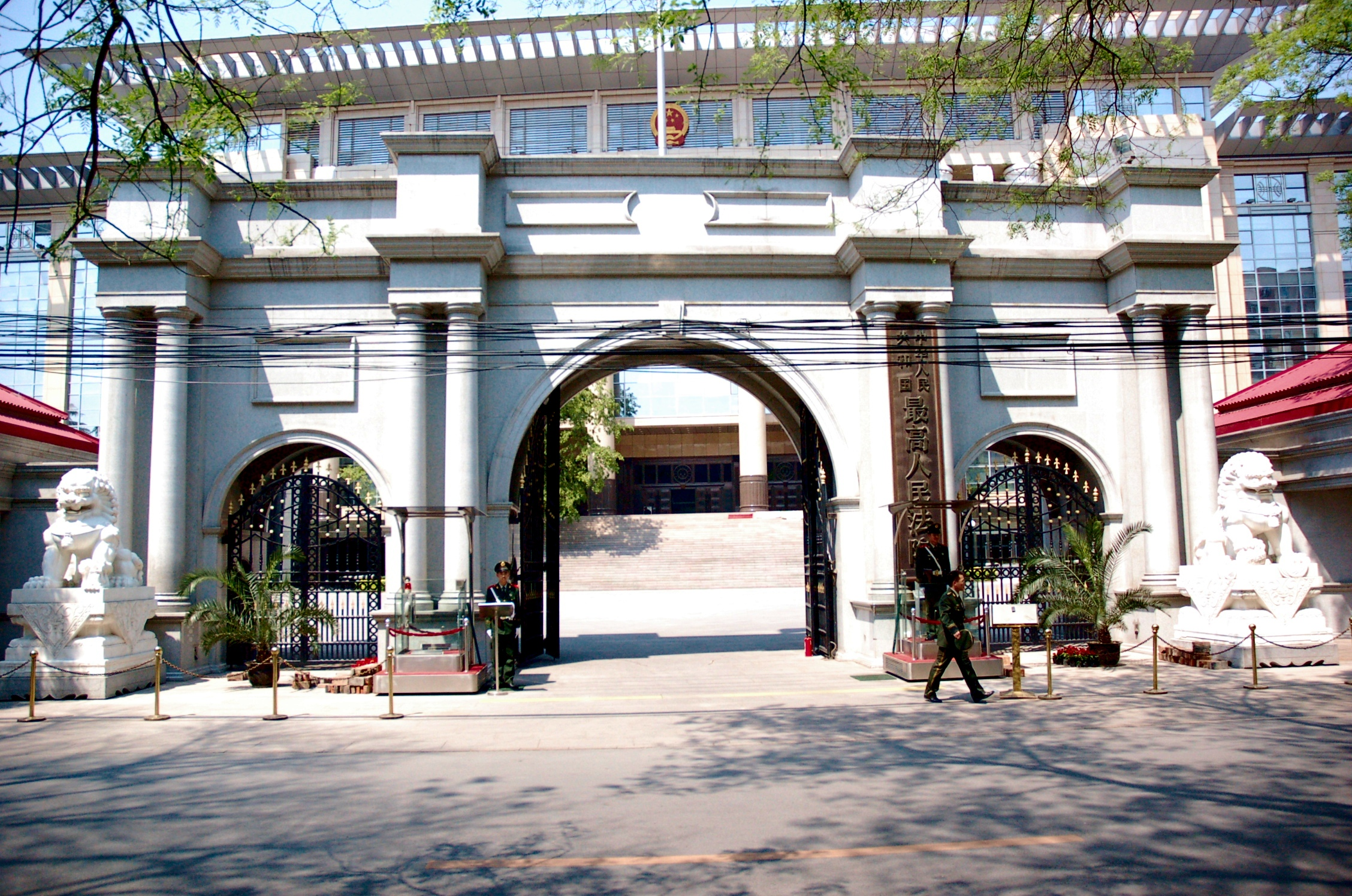 The main entrance to the Supreme People's Court of the People's Republic of China.